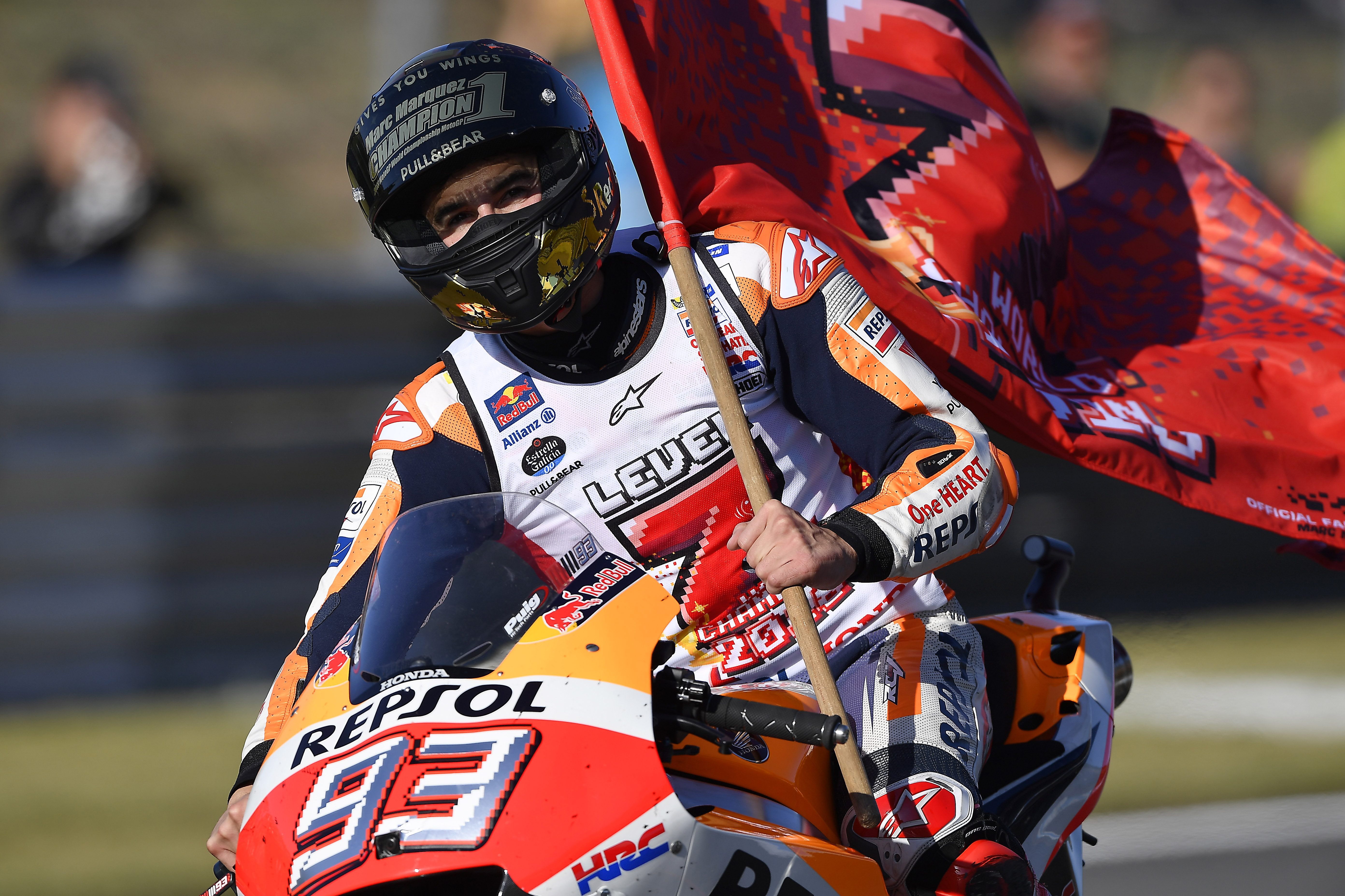 Marc Márquez, riding his Repsol Honda, celebrating his fifth MotoGP world championship title after winning the 2018 Japanese Grand Prix.